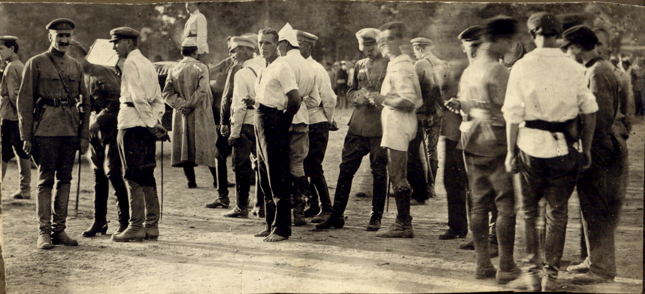 Turkestan Front , photos times of combat Basmachi (1922)